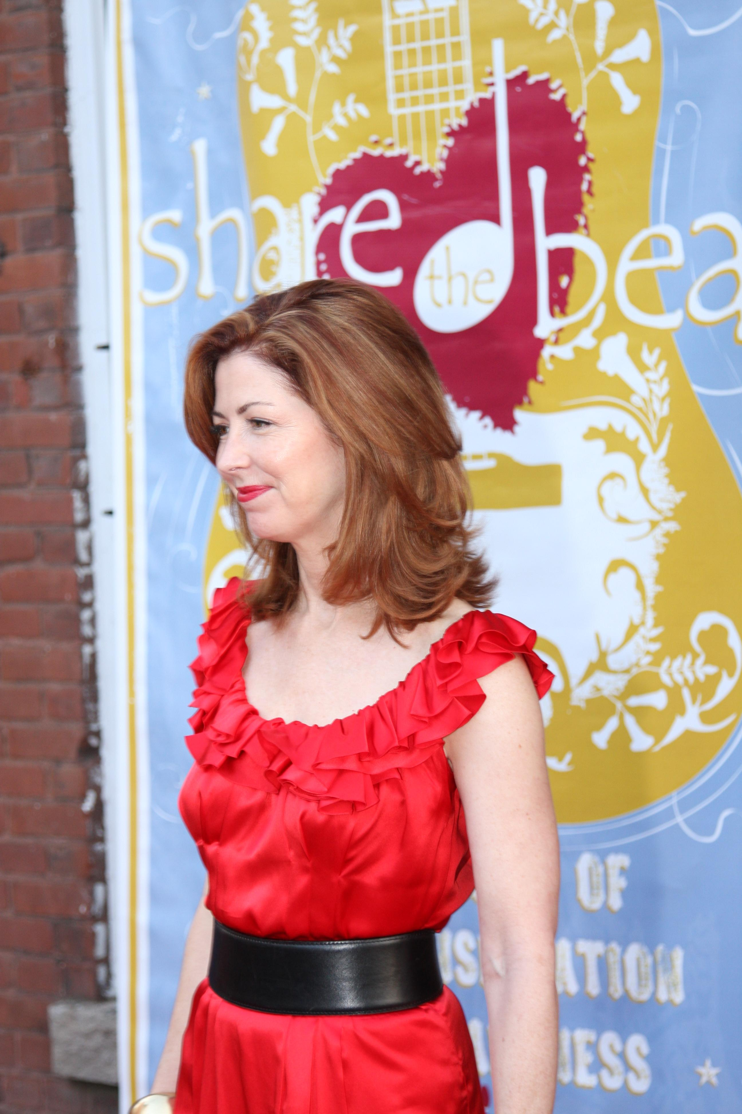 Dana Delany in Atlanta - September 13, 2008